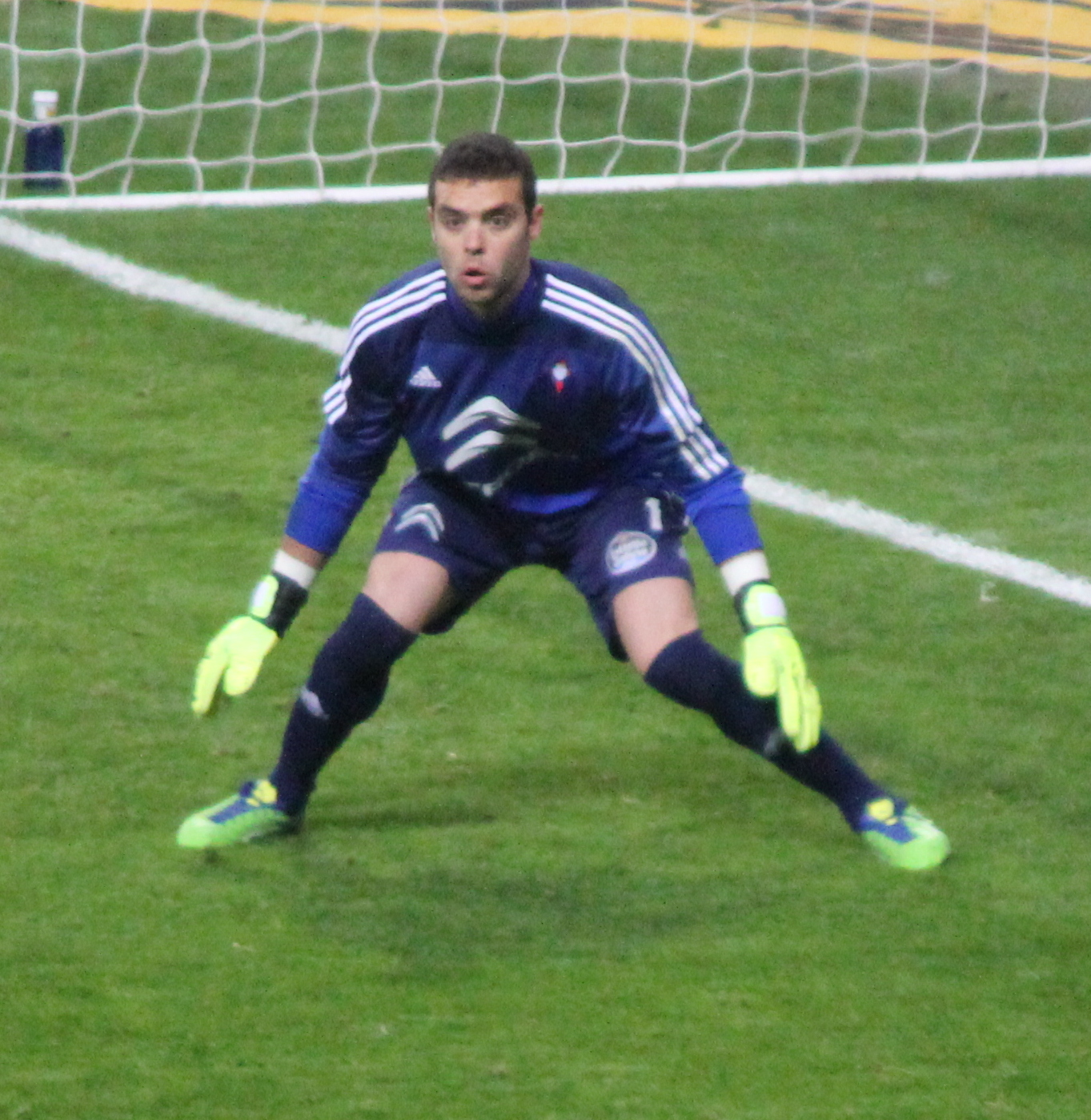 Real Madrid v Celta Vigo in Copa del Rey quarter-finals on 9 January 2012 in Madrid at Santiago Bernabeu stadium.